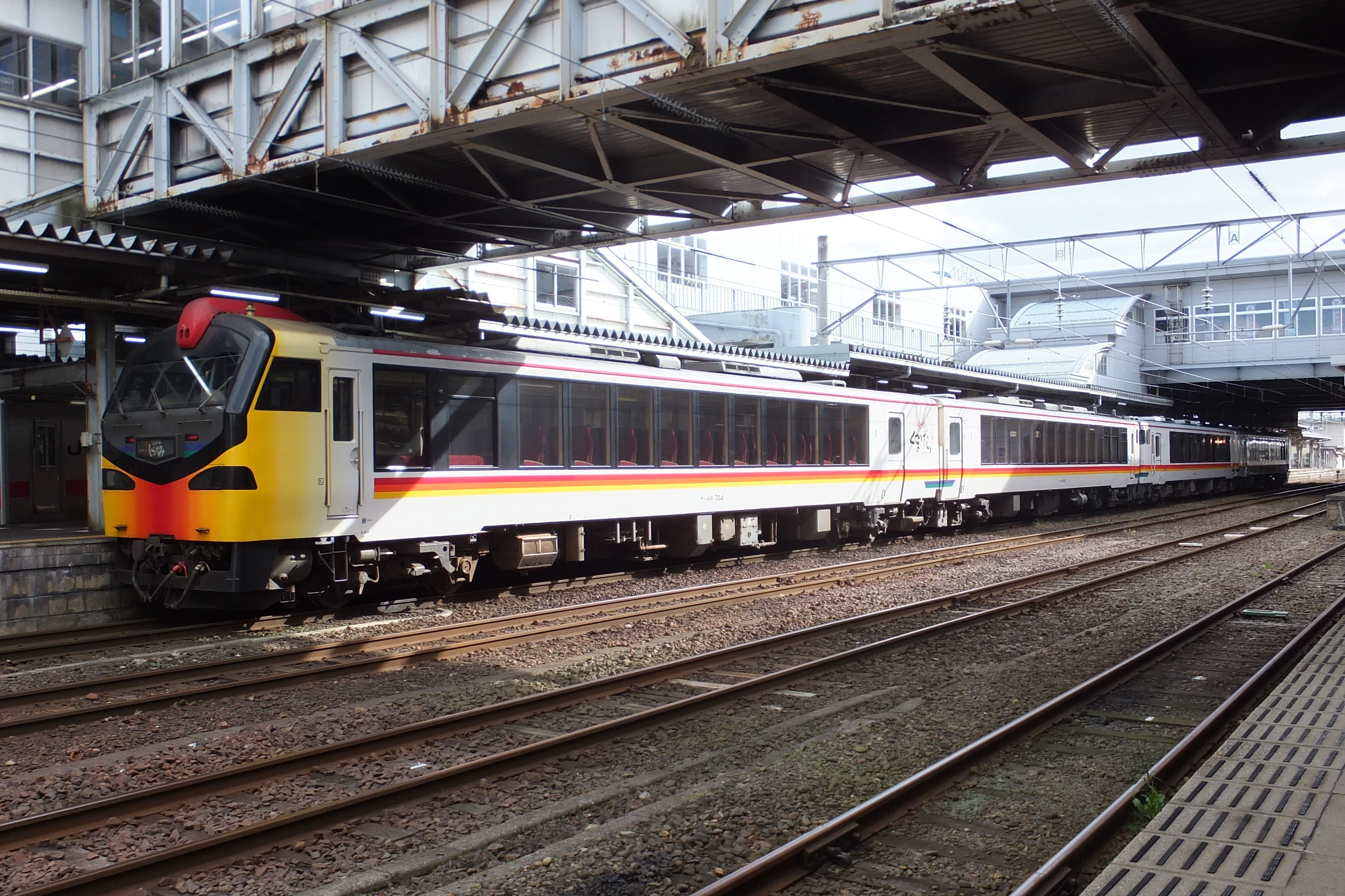 JR East KiHa 48 series 4-car DMU at Akita Station on a Resort Shirakami service